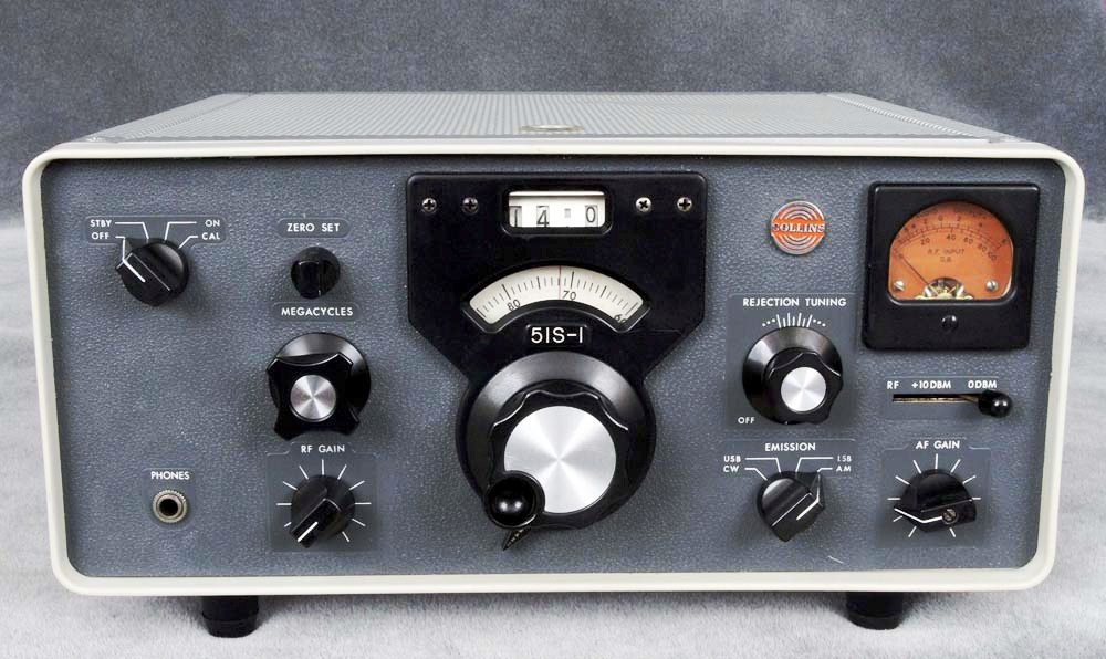 shortwave receiver Collins 51S-1, 1974